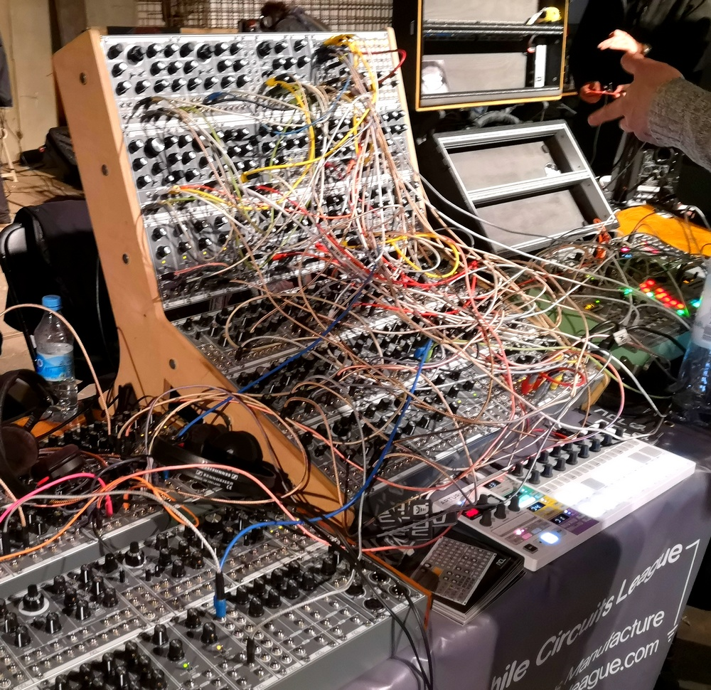 Picture taken by Hans Rompel on 27th sep 2019 at the Analogue Fest in building De Besturing in Den Haag.